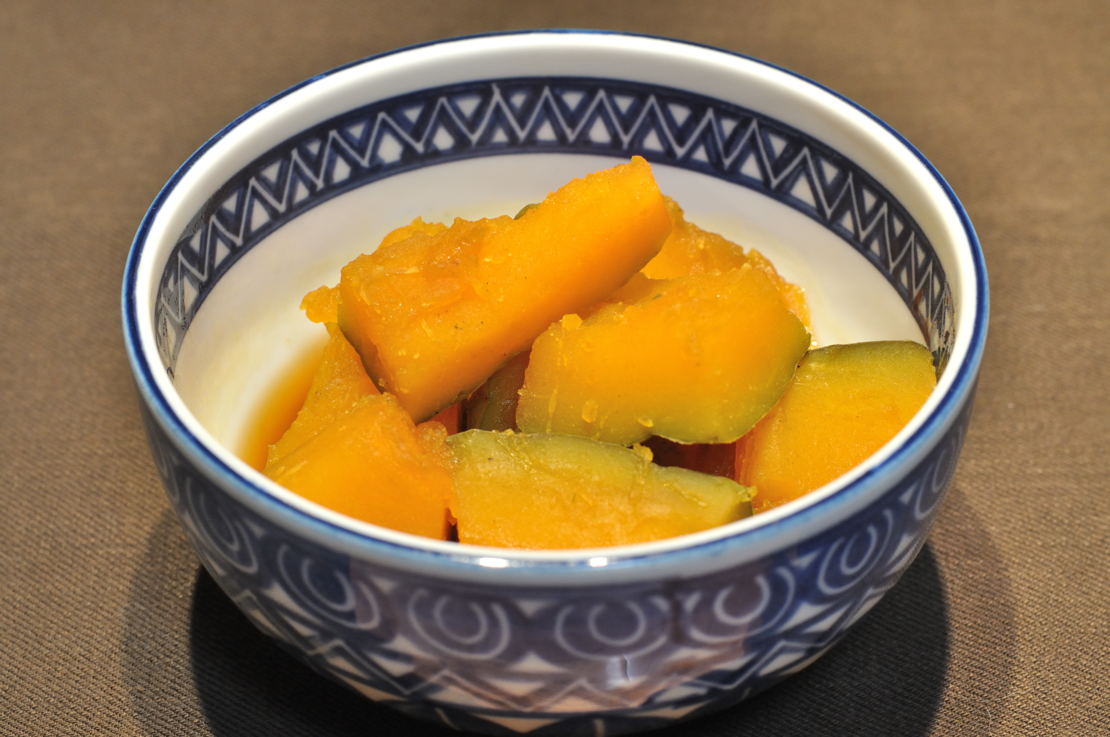 Simmered pumpkin seasoned with soy sauce, sugar, sake, and salt.